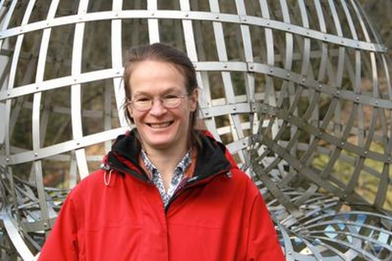 Mireille Bousquet-Mélou, Oberwolfach 2014